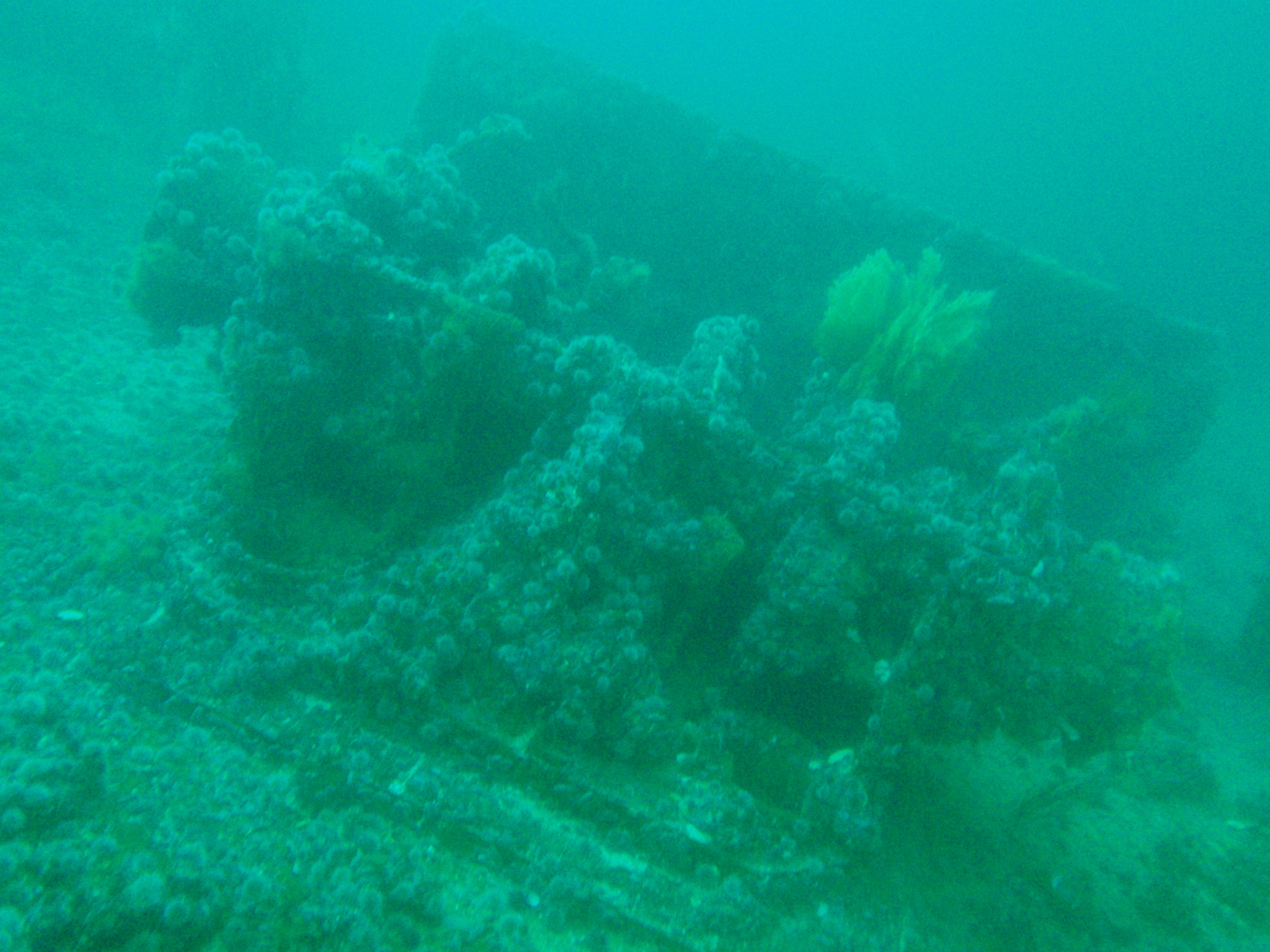 Anchor winch on the foredeck of the wreck of the SAS Pietermaritzburg, a recent wreck in the Miller's Point area on the False Bay coast of the Cape Peninsula, South Africa.